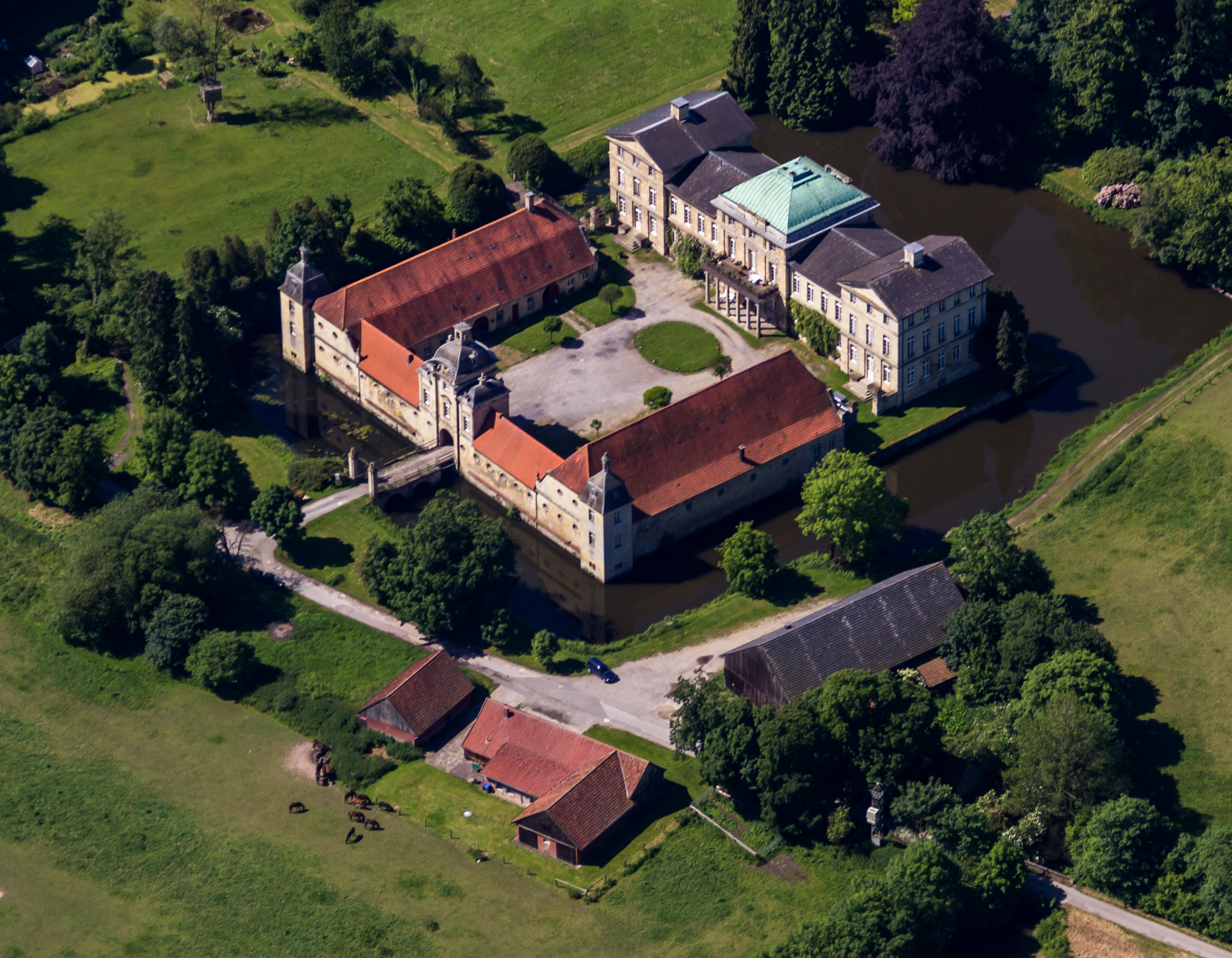 Stapel Manor, Havixbeck, North Rhine-Westphalia, Germany This image shows a heritage building in Germany, located in the North Rhine-Westphalian city Havixbeck (no. 24).